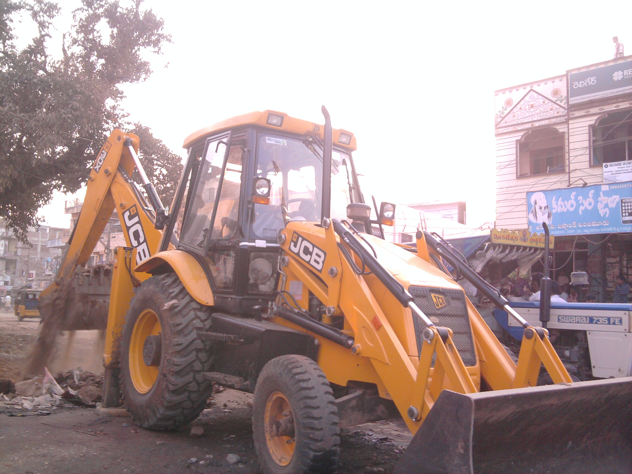 JCB vehicle